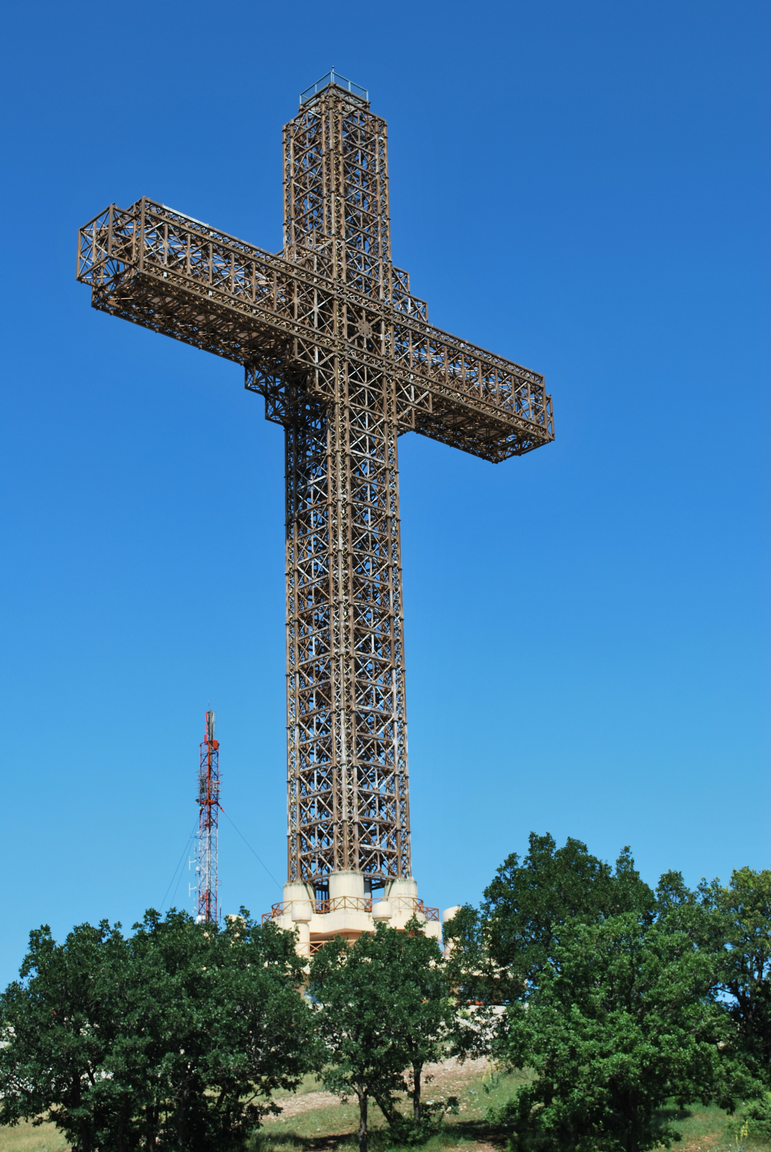 Millennium Cross over Skopje, Macedonia